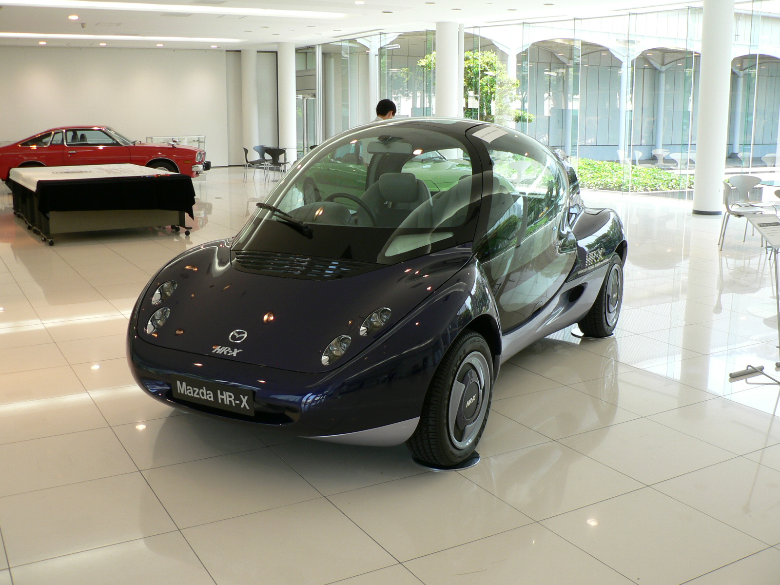 MAZDA HR-X('91)